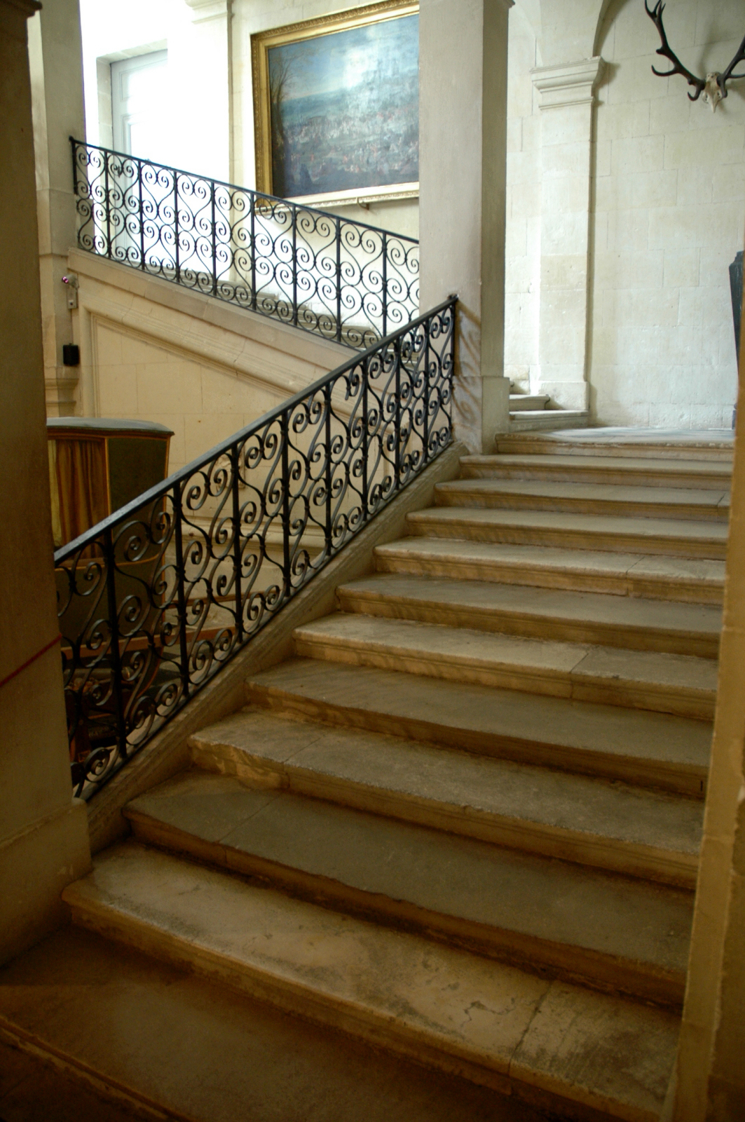 The Château d'Ussé, stairway